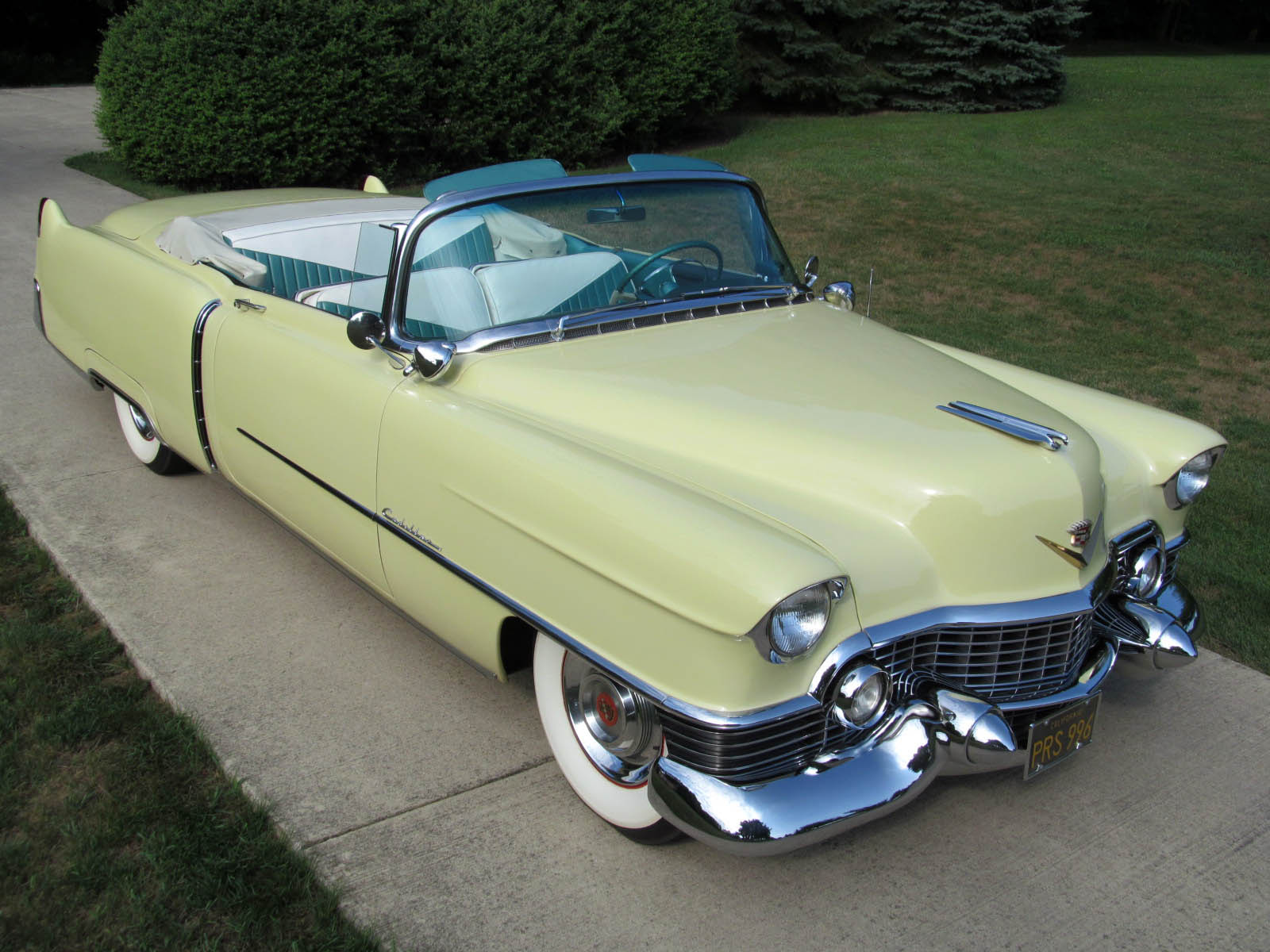 This is a picture of a 1954 Cadillac series 62 convertible.